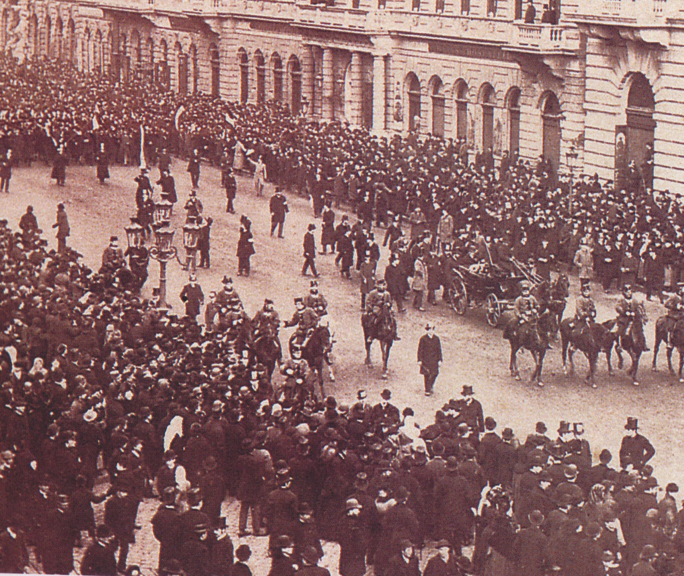 Protests against the the military modernization bill across the Andrássy-Avenue, Budapest on 17 February 1889.